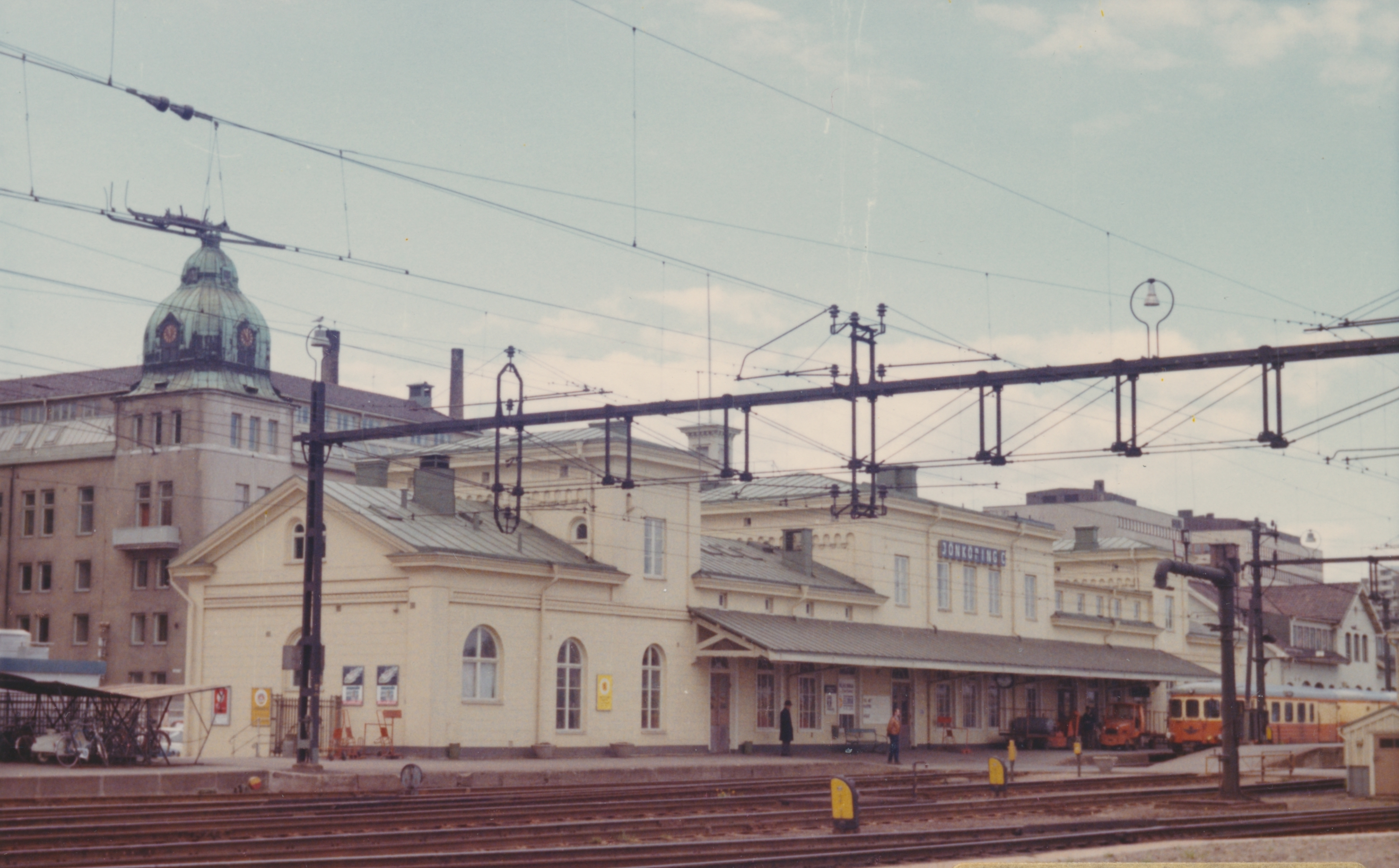 Fotografering 1968 - 1969 (1969) FOTOGRAF Fotograf okänd, IDENTIFIER JvmKDAD00149 PART OF COLLECTION Järnvägsmuseets foton OWNER OF COLLECTION Järnvägsmuseet INSTITUTION Järnvägsmuseet DATE PUBLISHED January 6, 2019 DATE UPDATED April 25, 2019 DIMU-CODE 021018162922 UUID 2ACDEAFC-592E-409B-8A8A-EFF6BF445326